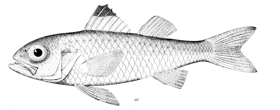 Blackmouth bass, Synagrops bellus, Syn.: Hypoclydonia bella